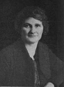 Senator Eva M. Hamilton, of Michigan Legislature, from a 1921 publication.